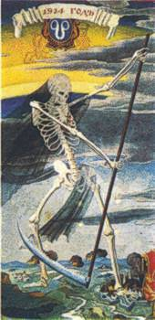 H. I. Narbut. Allegory "1914" (fragment).